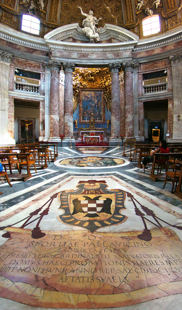 Church of Saint Andrew's at the Quirinal, Rome, Lazio, Italy.